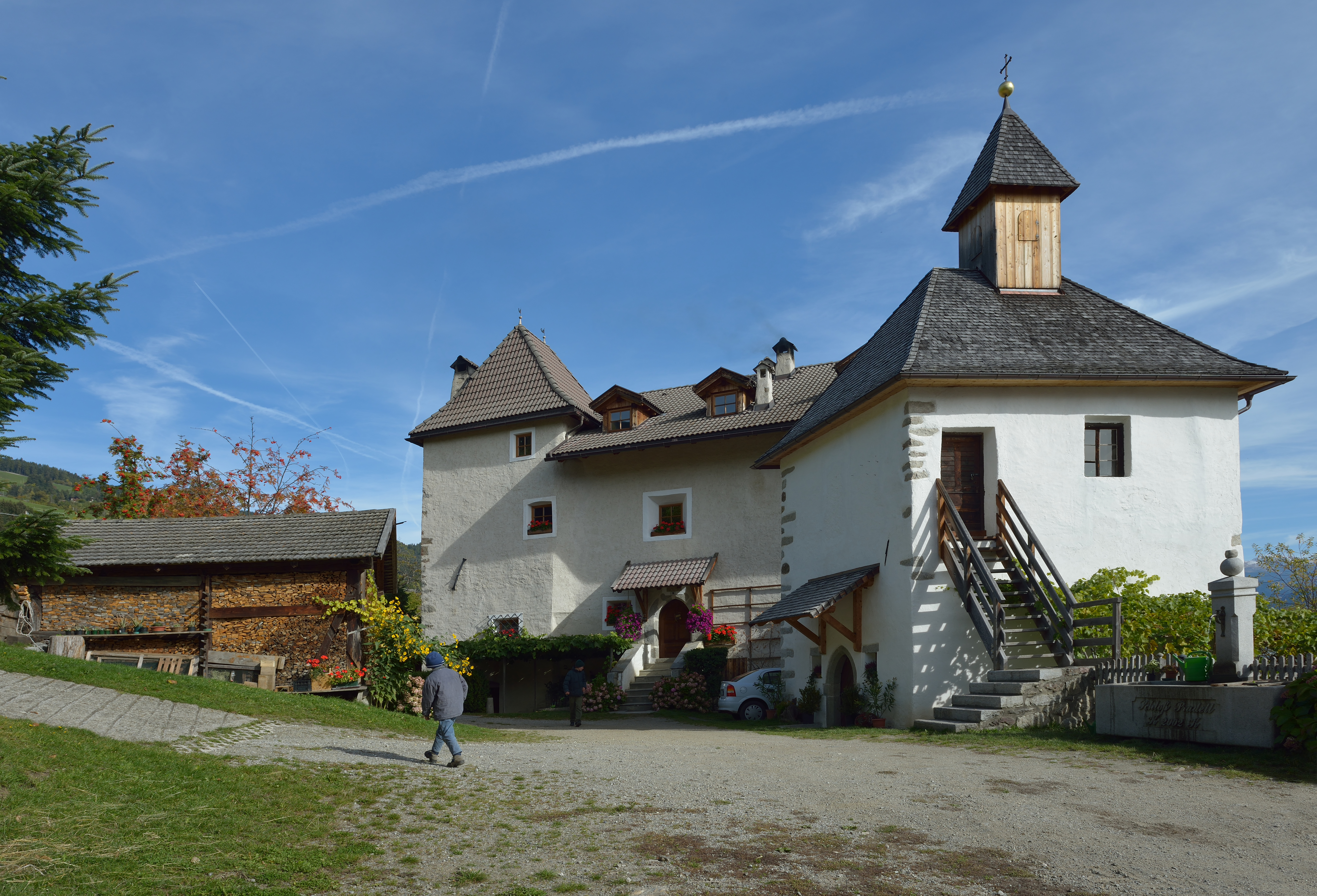 NW view of the manor house "Pardell" in Villanders